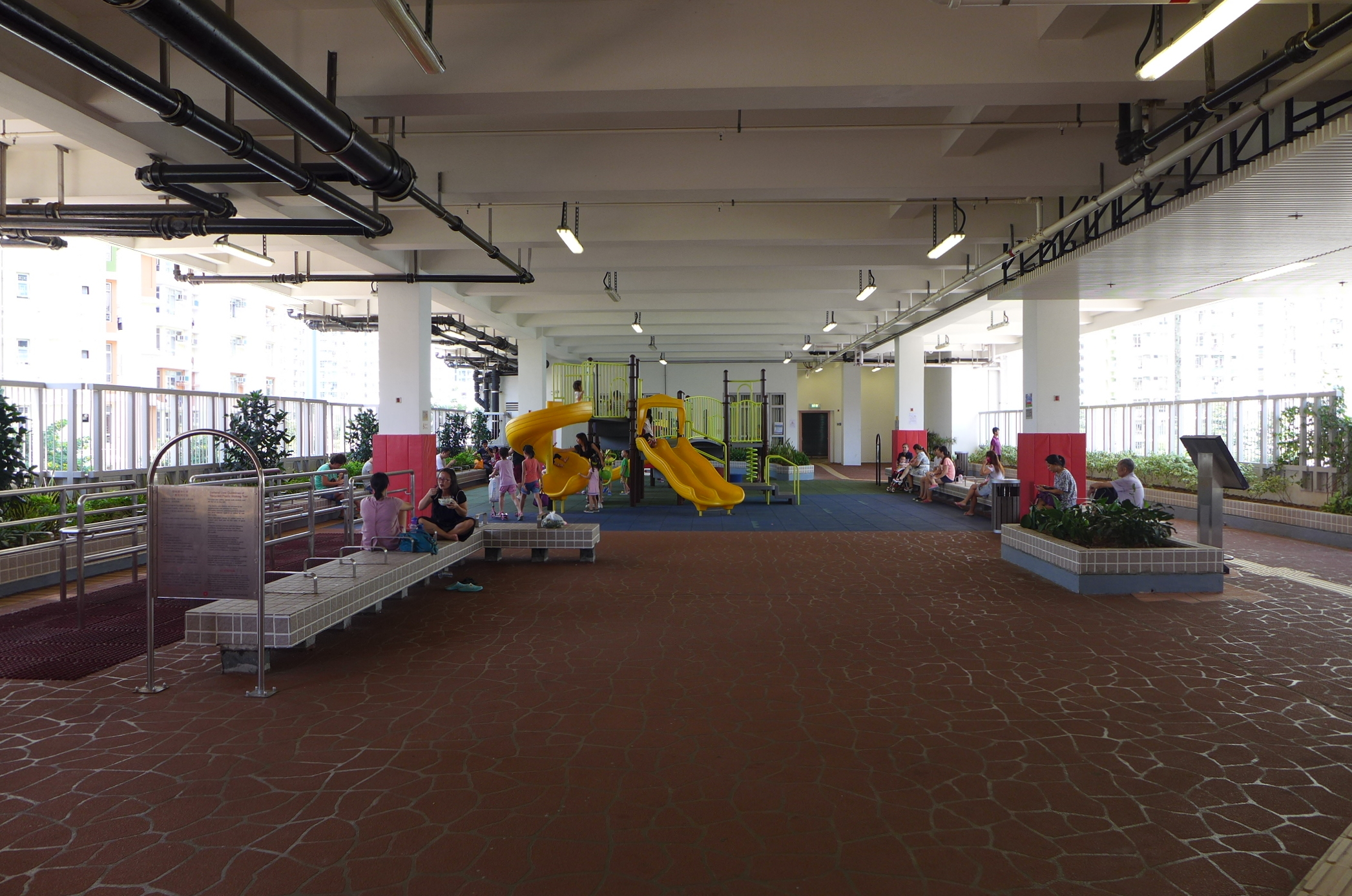 Cheung Sha Wan Estate Indoor Playground